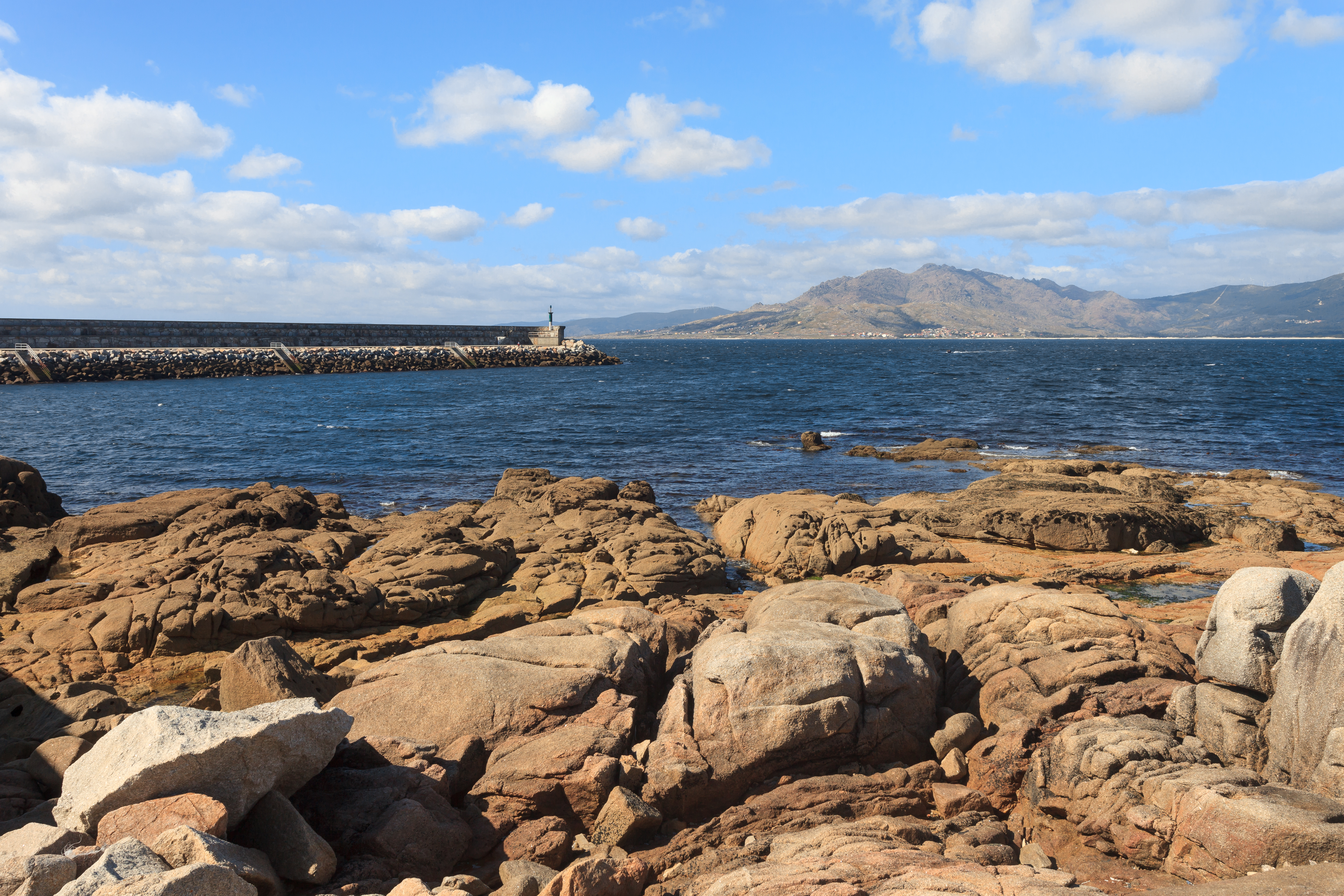 Port of Portocubelo and O Pindo mountains, Lira, Carnota, Galicia (Spain)